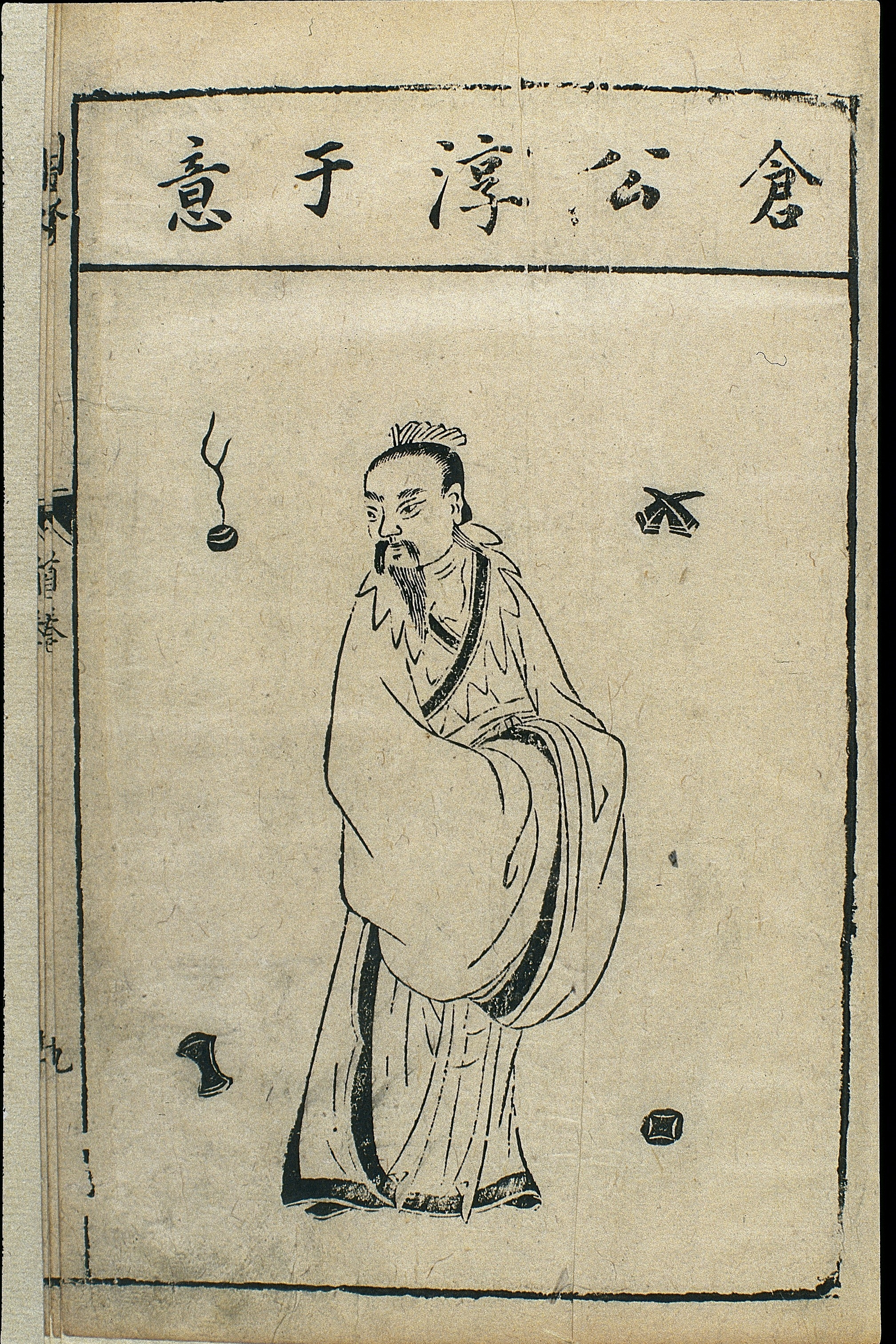 One of a series of woodcuts of illustrious physicians and legendary founders of Chinese medicine from an edition ofBencao mengquan(Introduction to the Pharmacopoeia), engraved in the Wanli reign period of the Ming dynasty (1573-1620) -- Volume preface, 'Lidai mingyi hua xingshi' (Portraits and names of famous doctors through history). The images are attributed to a Tang (618-907) creator, Gan Bozong.The account in 'Portraits and Names of Famous Doctors through History' states: Chunyu Yi held the office of Reverend Master of the Granary (Tai Cang Gong) of the Kingdom of Qi, and is hence also known by the title Tai Cang Gong or Cang Gong. He was a masterly physician. The 'Biography of Bian Que and Cang Gong' inShiji(Records of the Historian) records that Chunyu Yi was summoned to examine the Emperor's sick mother. Having examined her pulses, he said that she had a wind fever (fengdan) in her bladder, which was causing problems with urination and defecation and blood in the urine. He prescribed a decoction to treat fire, saying that on drinking this, she would be able to urinate more easily; and with continued treatment, the illness would be cured and her urine would return to normal.Woodcut By: Gan Bozong (Tang period, 618-907)